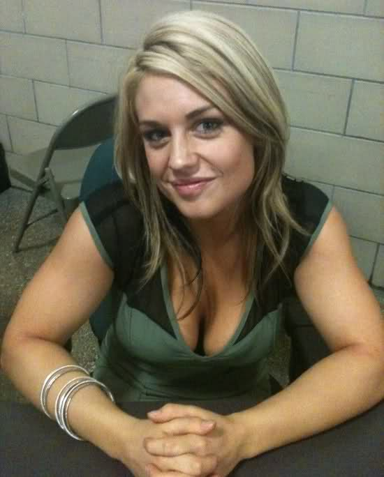 WWE's Kaitlyn sitting at a table backstage at the February 13, 2012 Monday Night Raw taping